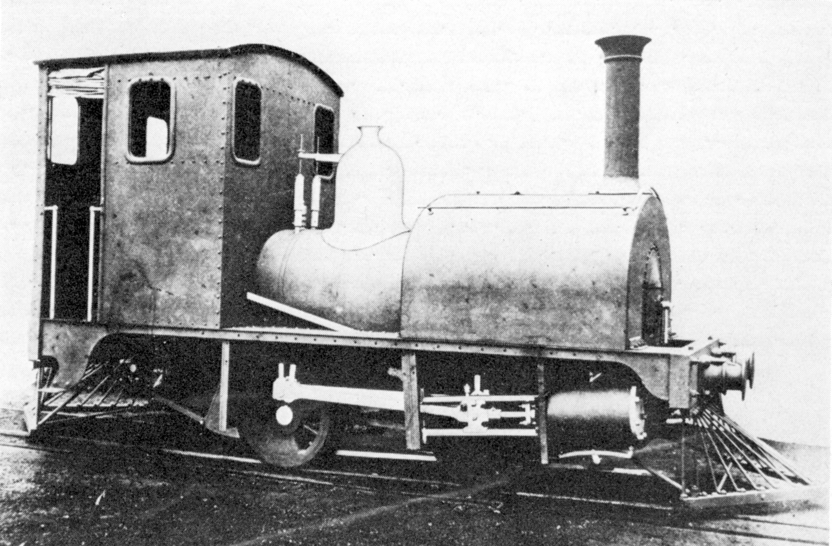 Kimberley Diamond Mine's Ruston, Proctor 0-4-0ST, sister locomotive to the Cape Government Railways 0-4-0ST construction locomotive "Coffee Pot" that was used during construction of the bridge across the Orange River at Norvalspont